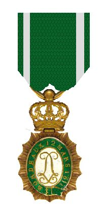 Order of the Armed Arm of Bordeaux 1814